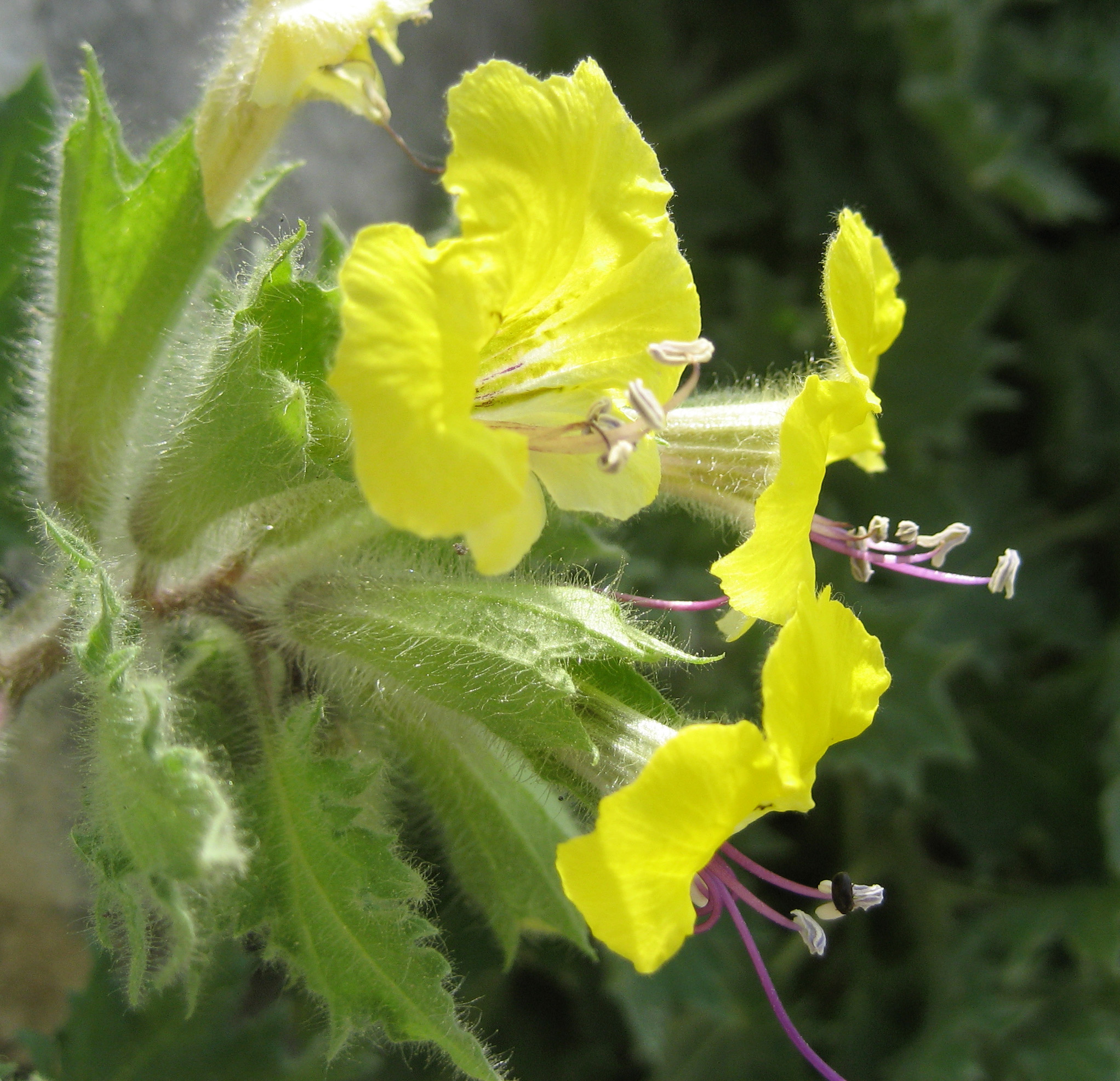 Hyoscyamus aureus. Silifke, Mersin province, Turkey, growing on old walls of Silifke castle.